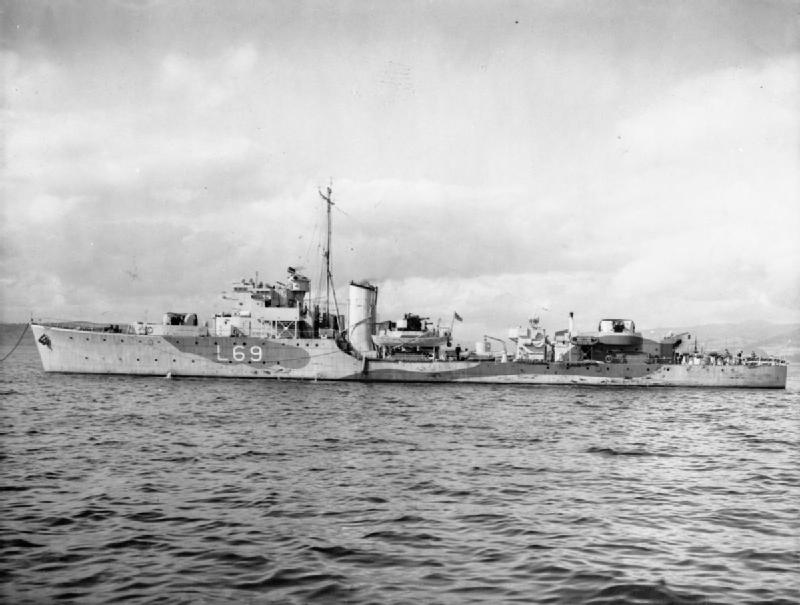 HMS Tanatside At a buoy.